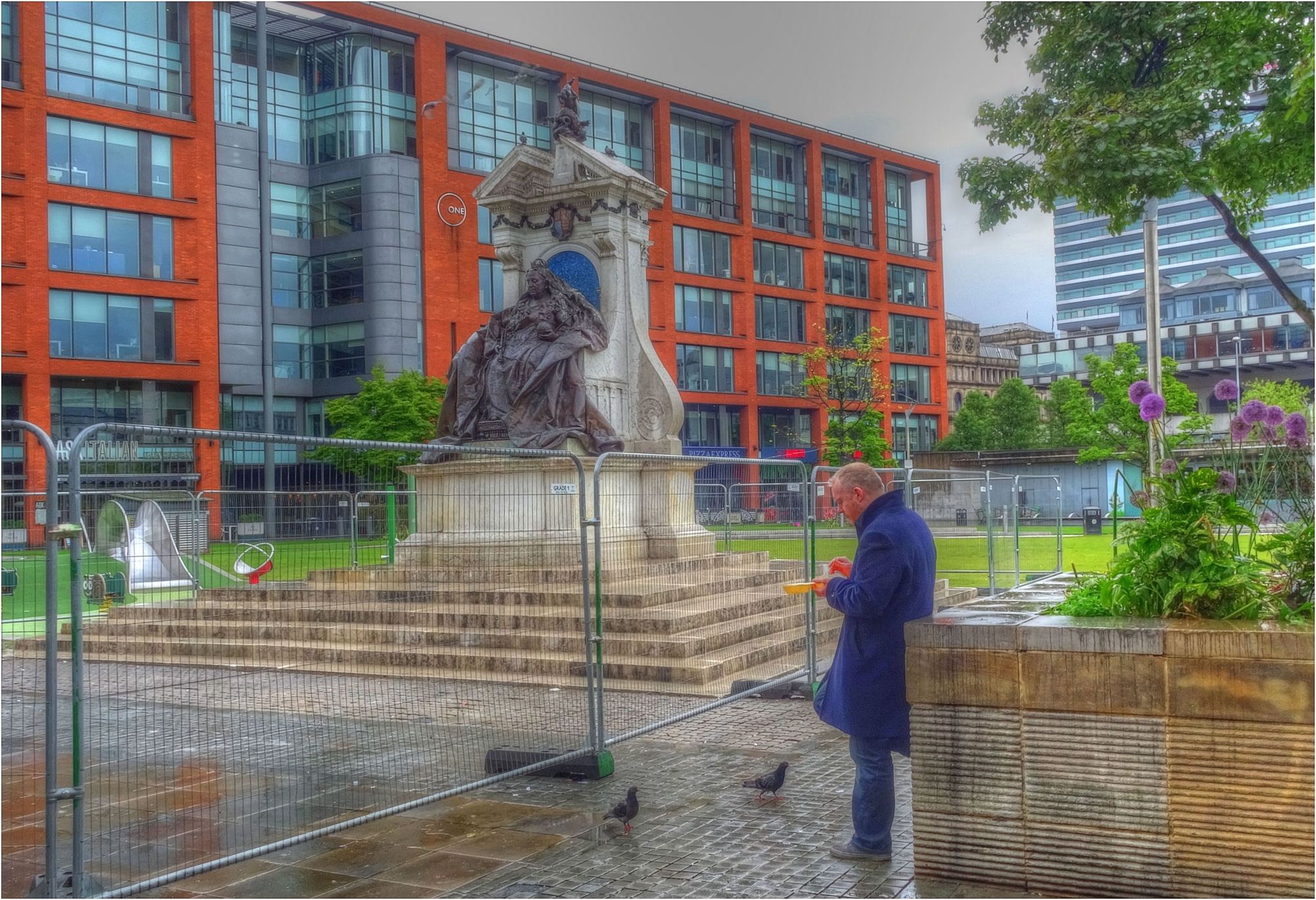 Queen Vicky has had her gardens ripped up, and she's in a cage. No wonder she's grumpy.